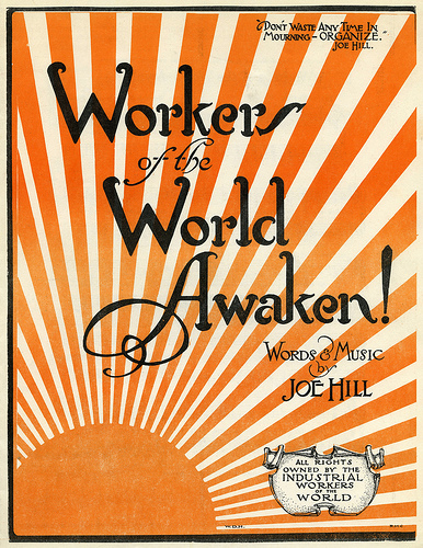 The cover to the IWW song sheet version of Joe Hill's "Workers of the World Awaken" (10 1/2 x 13 1/2, 1918).